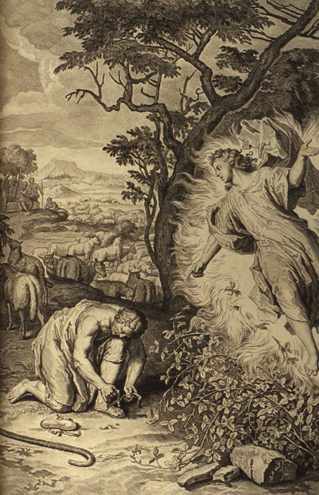 The Lord Appears to Moses in a Burning Bush; as in Exodus 3:2-10: "And the angel of the Lord appeared unto him in a flame of fire out of the midst of a bush: and he looked, and, behold, the bush burned with fire, and the bush was not consumed. And Moses said, I will now turn aside, and see this great sight, why the bush is not burnt. And when the Lord saw that he turned aside to see, God called unto him out of the midst of the bush, and said, Moses, Moses. And he said, Here am I. And he said, Draw not nigh hither: put off thy shoes from off thy feet, for the place whereon thou standest is holy ground. Moreover he said, I am the God of thy father, the God of Abraham, the God of Isaac, and the God of Jacob. And Moses hid his face; for he was afraid to look upon God. And the Lord said, I have surely seen the affliction of my people which are in Egypt, and have heard their cry by reason of their taskmasters; for I know their sorrows; And I am come down to deliver them out of the hand of the Egyptians, and to bring them up out of that land unto a good land and a large, unto a land flowing with milk and honey; unto the place of the Canaanites, and the Hittites, and the Amorites, and the Perizzites, and the Hivites, and the Jebusites. Now therefore, behold, the cry of the children of Israel is come unto me; and I have also seen the oppression wherewith the Egyptians oppress them. Come now therefore, and I will send thee unto Pharaoh, that thou mayest bring forth my people the children of Israel out of Egypt."; illustration from the 1728 Figures de la Bible; illustrated by Gerard Hoet (1648–1733) and others, and published by P. de Hondt in The Hague; image courtesy Bizzell Bible Collection, University of Oklahoma Libraries